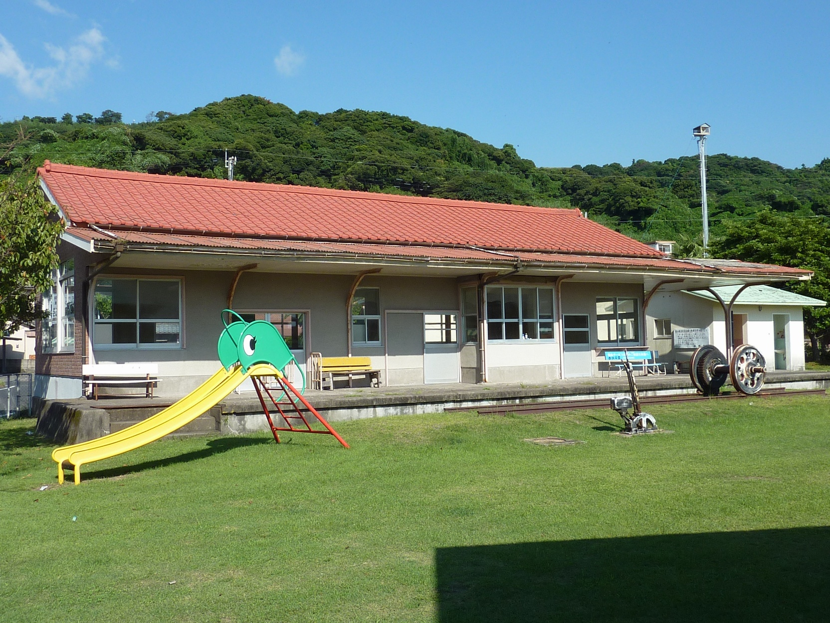 Former Furue Station (JNR Osumi Line, 1923-1987) This station was located in Kanoya City, Kagoshima, Japan.